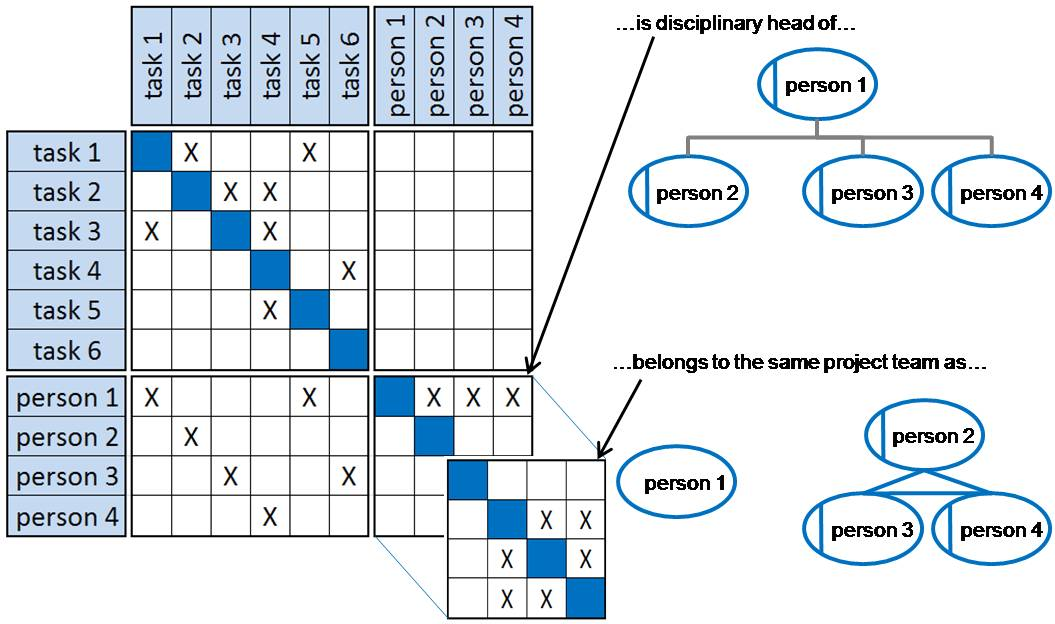 example of a Multiple-Domain Matrix